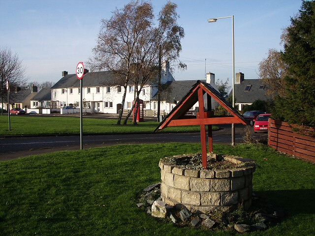 Aberargie. A small community at the foot of Glenfarg.